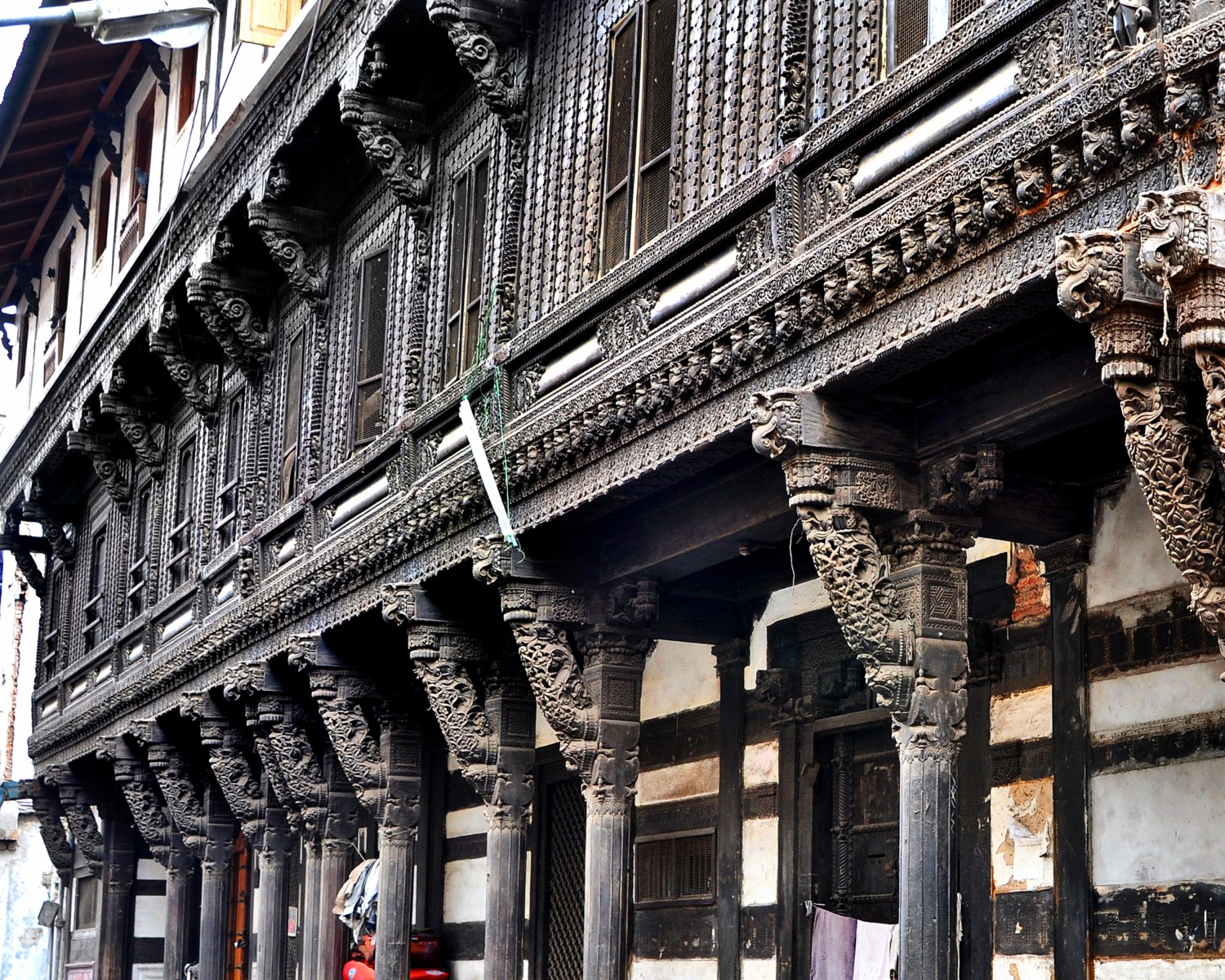 This wooden haveli is situates in Old City, Kalupur Tankshal area. It's a heritage place.